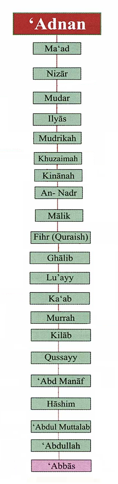 A family tree depicting the ancestry of the Banu Abbas tribe.